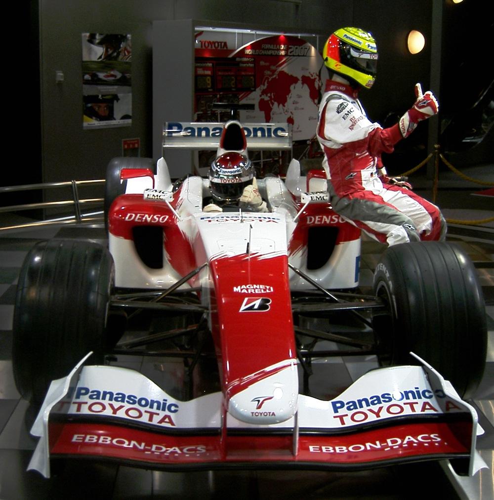 “Toyota Formula One TF-107” ToyotaAmlux,Show room Tokyo, Japan Category:Toyota F1 Toyota F1